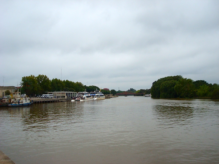 Puerto Carmelo-Tigre on the Arroyo de las Vacas, Colonia Department, Uruguay.